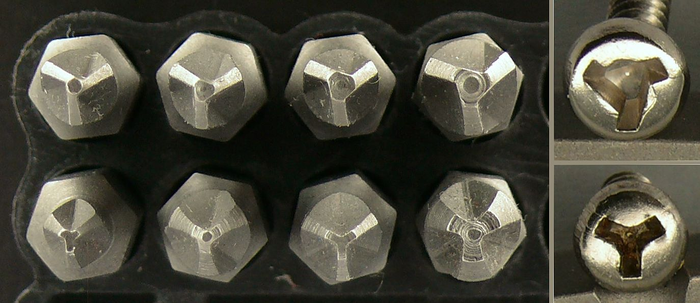 Three point screw drives: First row (left to right): Tri-Wing screwdriver bits No. 1, 2, 3, 4; screw head Tri-Wing No. 4 Second row (left to right): Y-Type screwdriver bits size 4mm, 5mm, 5.5mm, 6mm; screw head Y-Type 5.5mm